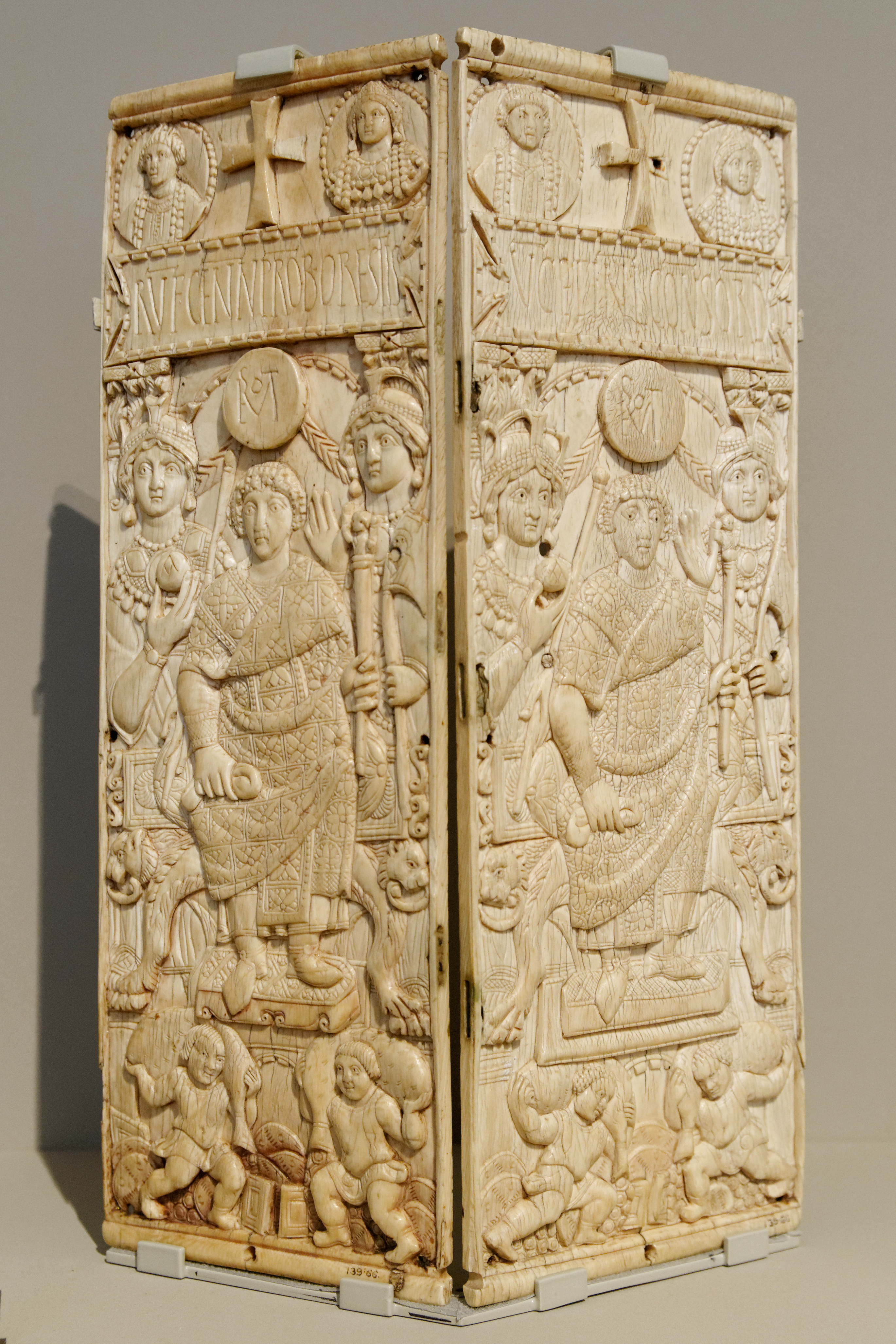 Consular diptych of Rufus Gennadius Probus Orestes. Made in Rome, Italy.